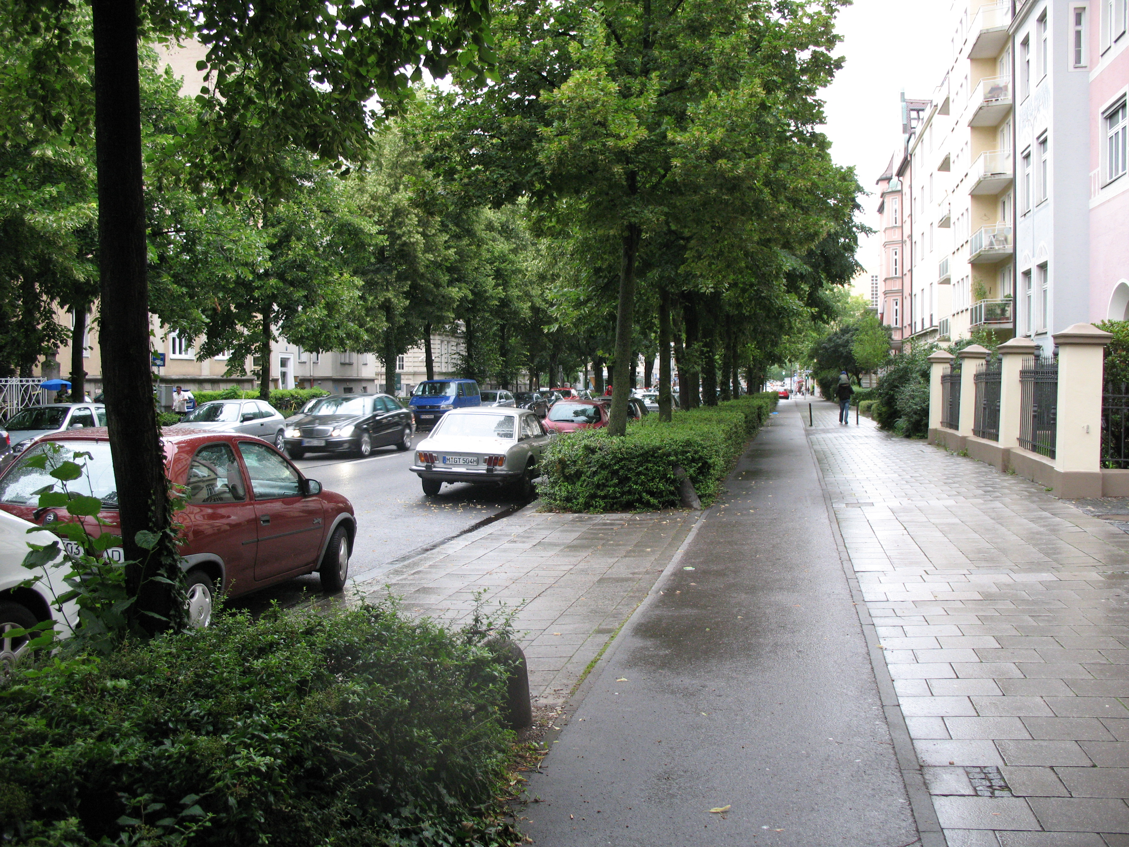 Goethe Street, Munich, Germany